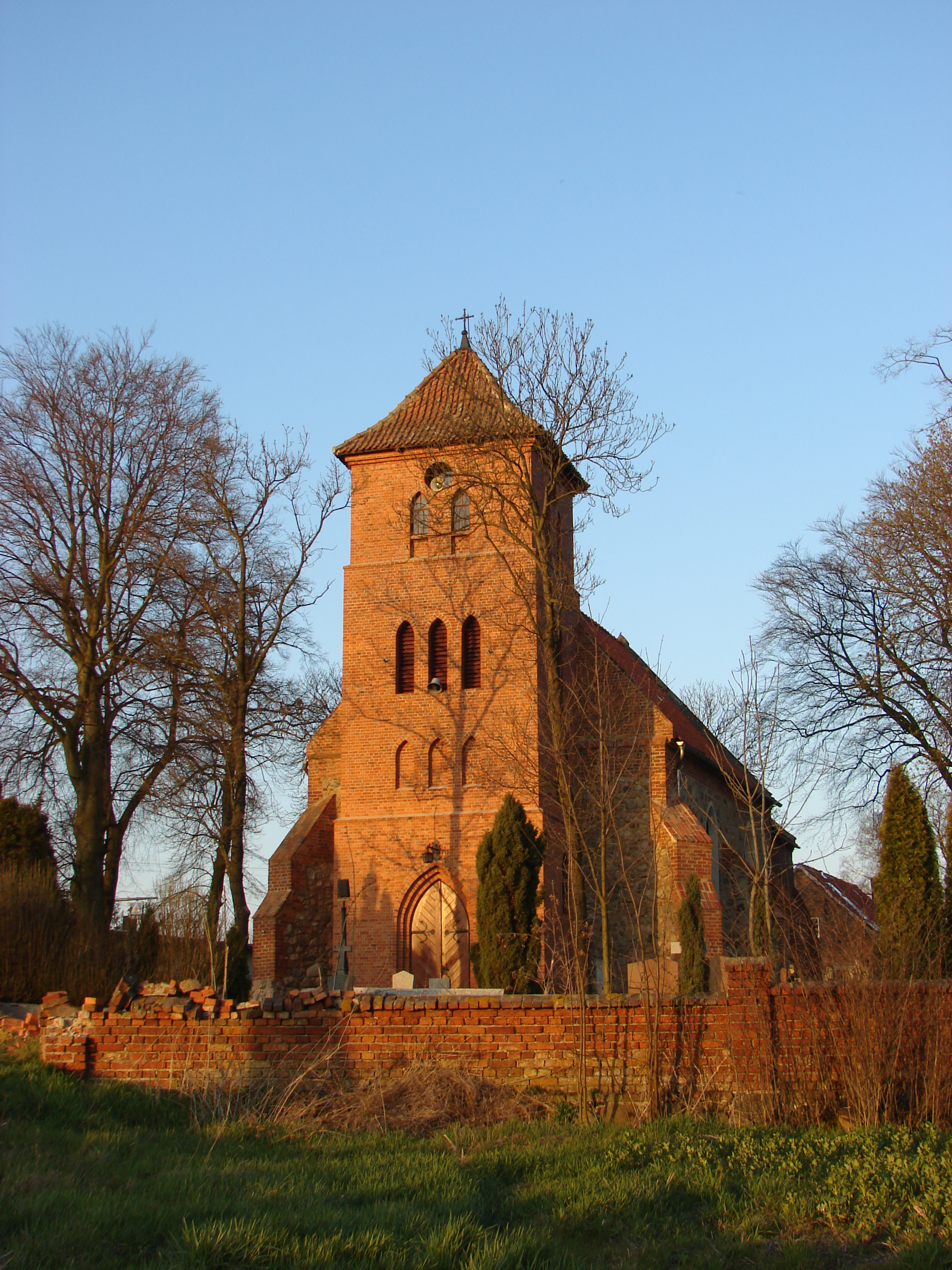 Gostkowo, Gmina Łysomice, Toruń County, Kuyavian-Pomeranian Voivodeship. Parish church of Virgin Mary. XIII-XIV century.